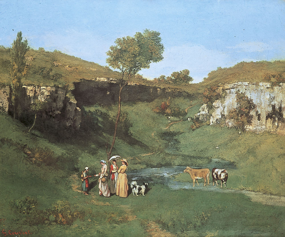 Courbet, Gustave; Les demoiselles de village; Leeds Museums and Galleries